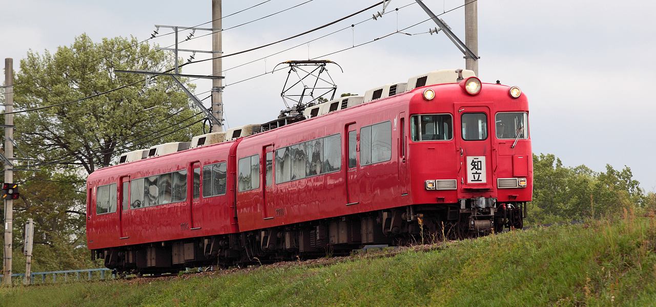 Meitetsu 7700 series EMU ( 7715F ), between Hiratobashi Sta. and Koshido Sta.